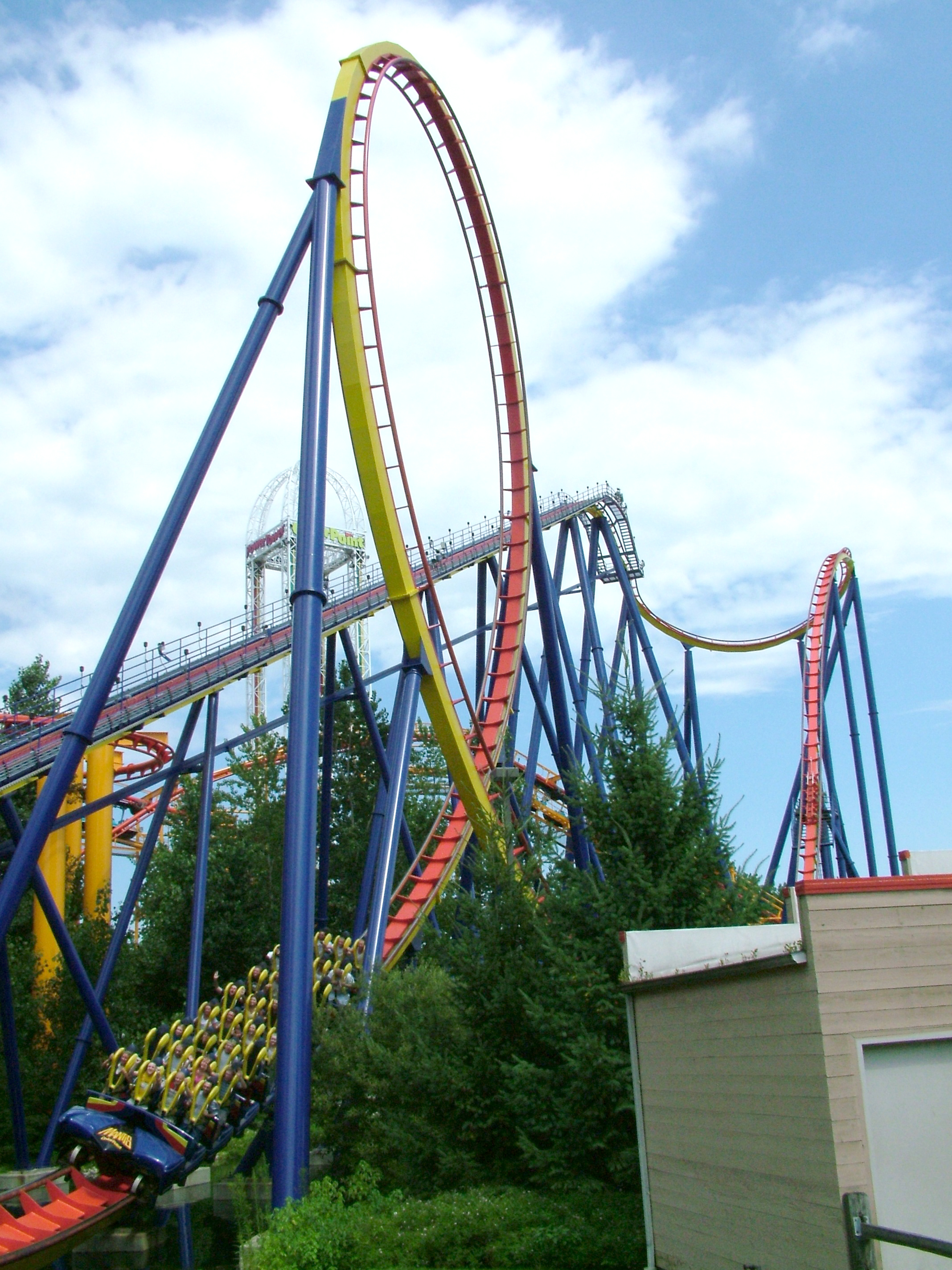 Subject: Mantis roller coaster at Cedar Point in Sandusky, OH Author: Nick Nolte Taken: August 8, 2004